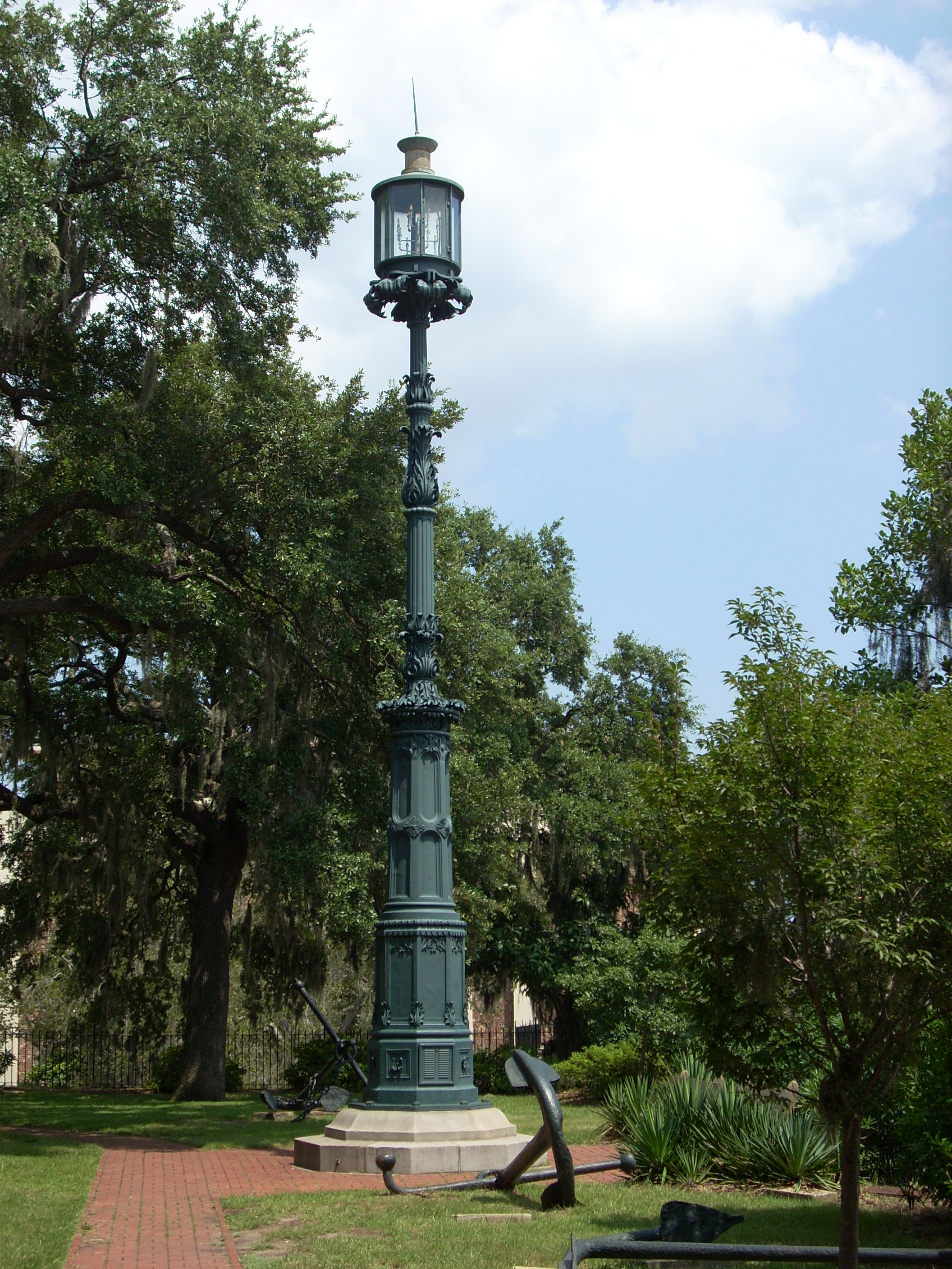 Old Harbor Beacon, Savannah (Chatham County, Georgia) also known as Savannah Harbor Range Rear - Beacon Range, Old Harbor